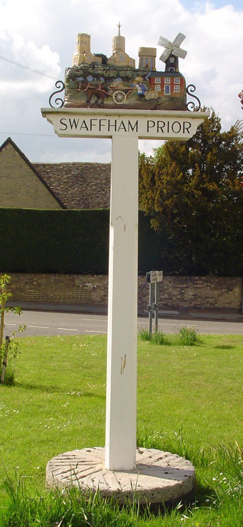 Signpost in Swaffham Prior